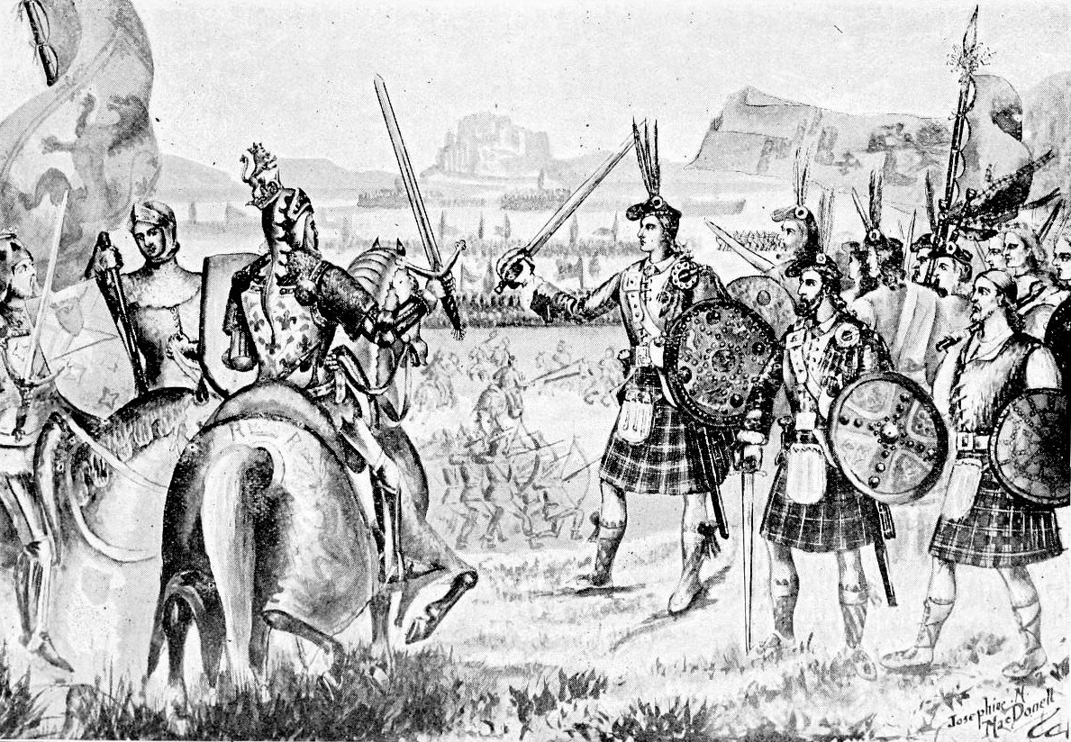 A nineteenth-century depiction of Aonghus Óg Mac Domhnaill at the Battle of Bannockburn. The original caption reads: "Angus Og at Bannockburn - 1314".